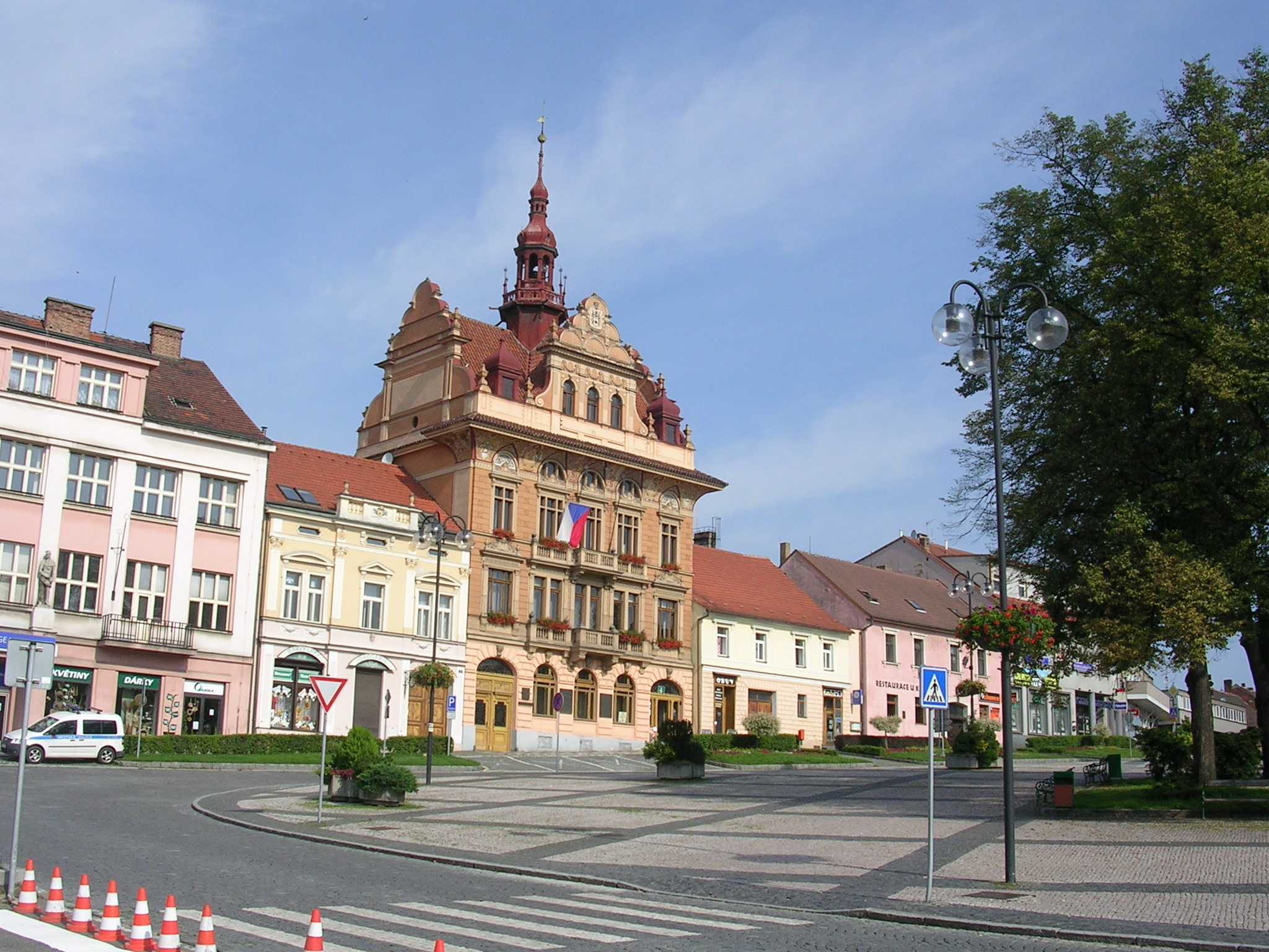 Sedlčany, Příbram District, Central Bohemian Region, the Czech Republic. Masaryk's Square.